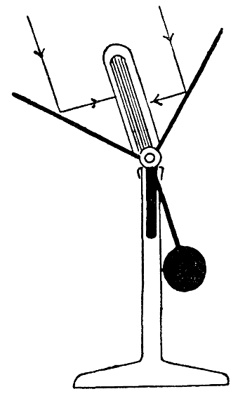 Mouchot's solar thermal collector from 1860